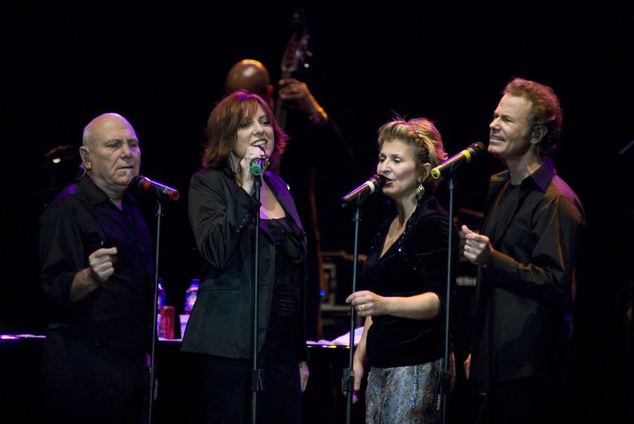 The Manhattan Transfer at Java Jazz Festival 2008